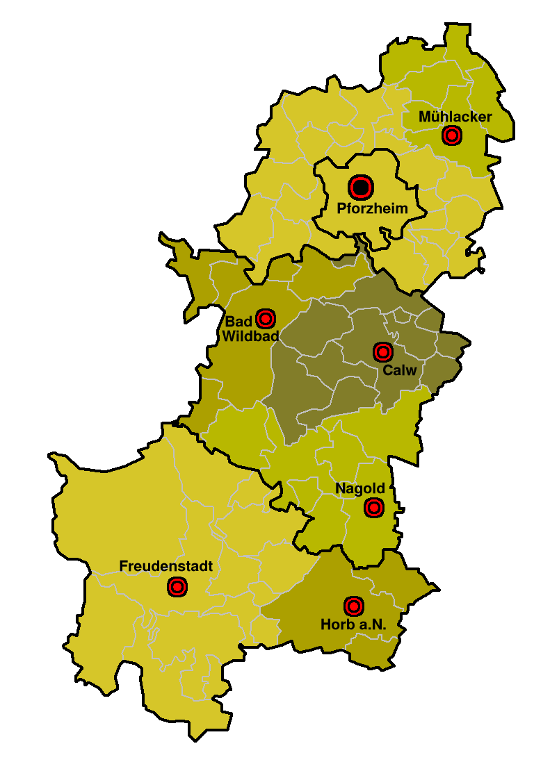 Maps of planning regions (Mittelbereiche) in the region Nordschwarzwald, Baden-Württemberg, Germany